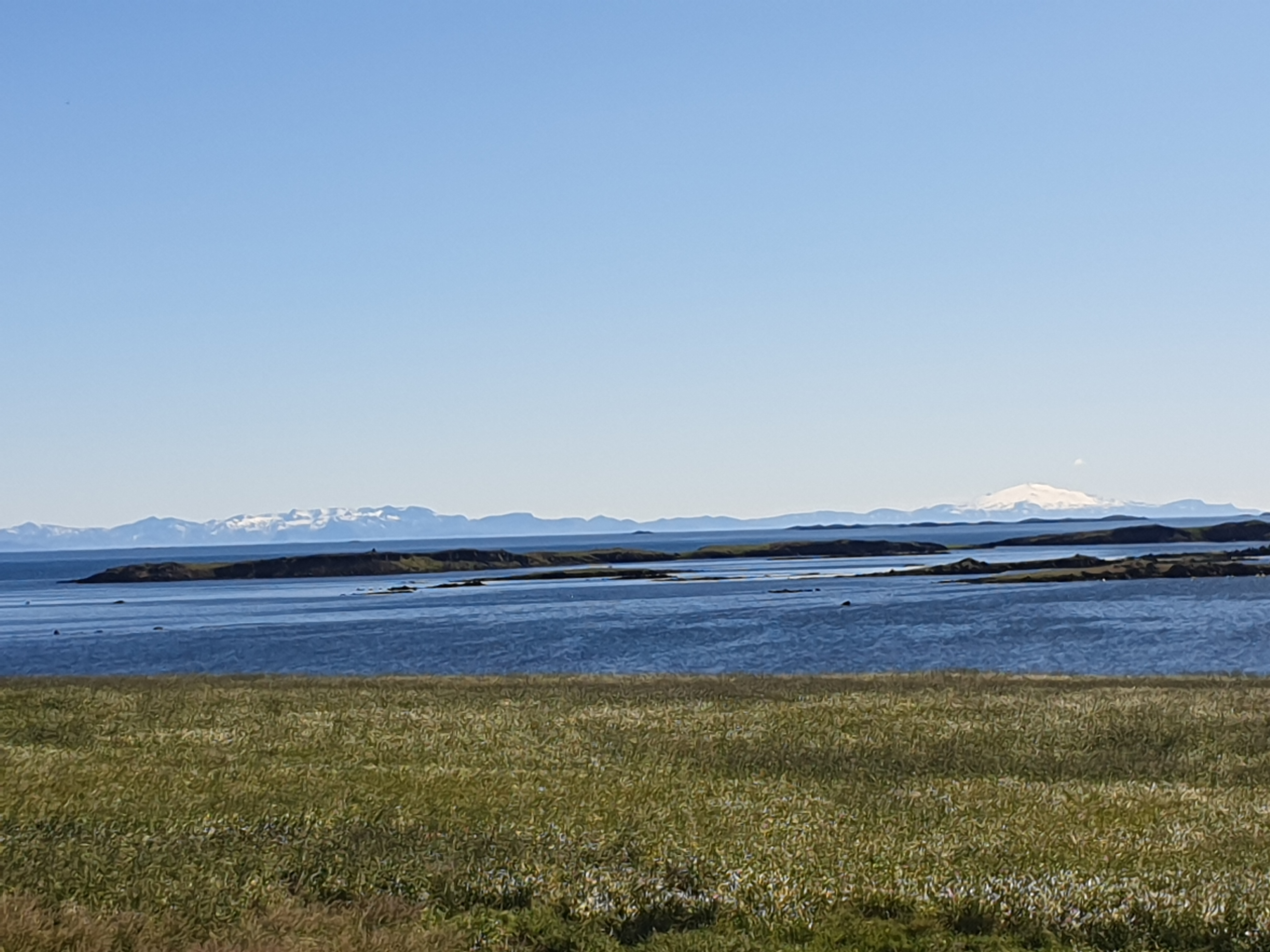 S.nes peninsula from Barðaströnd